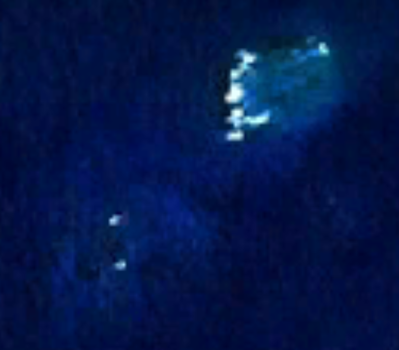 This is an image of the Tryal Rocks.